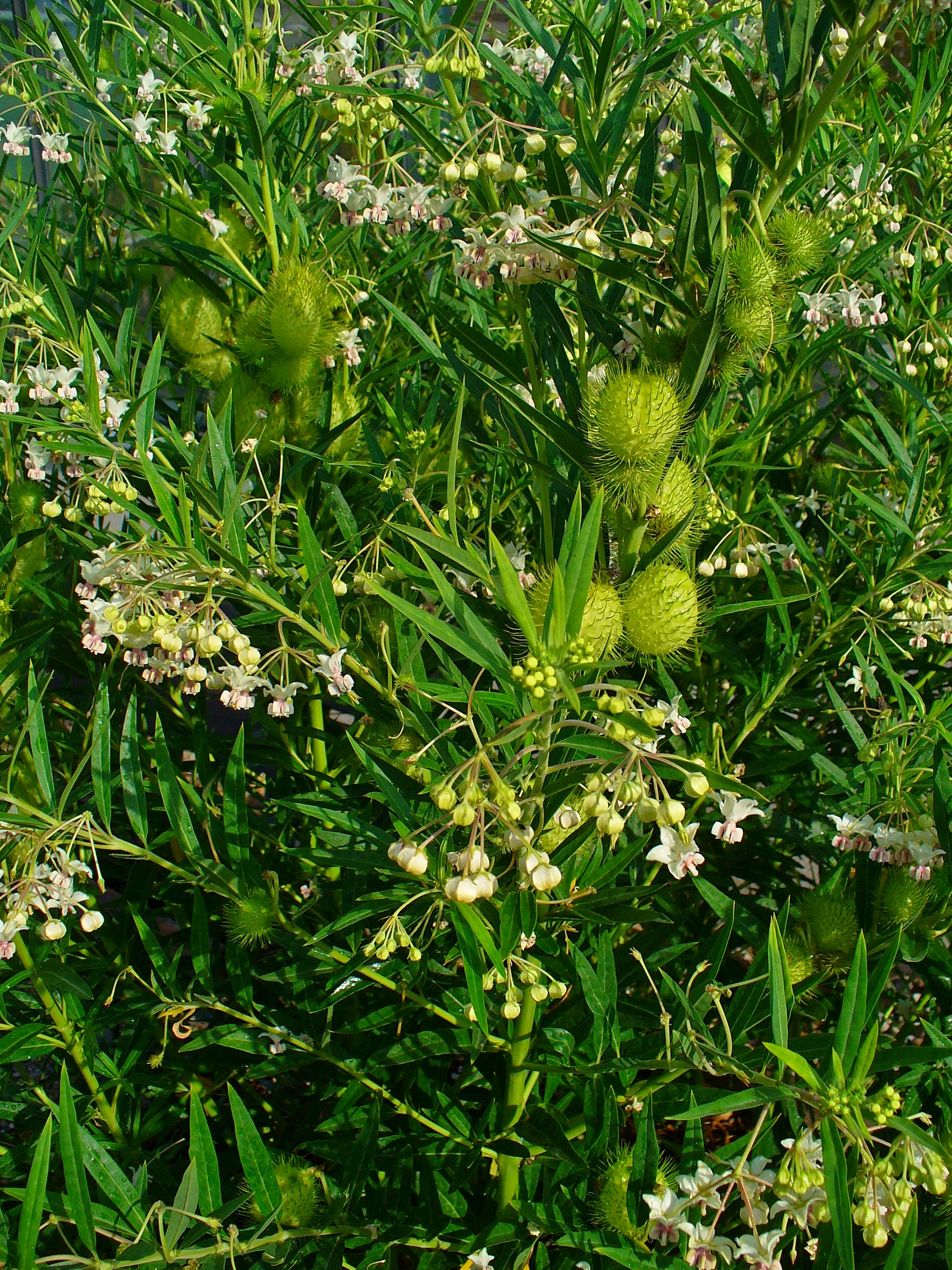 Gomphocarpus fruticosus, Apocyanaceae, Balloon Cotton, Cape Cotton, Duckbush, habitus; Botanical Garden KIT, Karlsruhe, Germany.